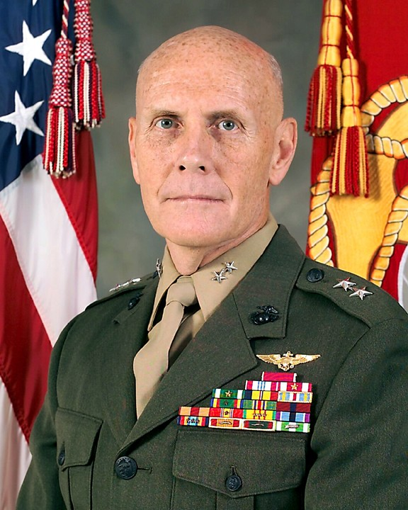 USMC image of Major General T. F. Ghormley, US agency photo, public domain, taken from his USMC bio page